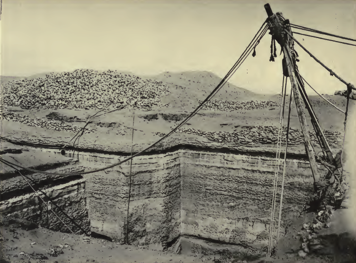 Exterior of the main shaft of the pyramid of Baka during the excavations of Barsanti, 1905 photography